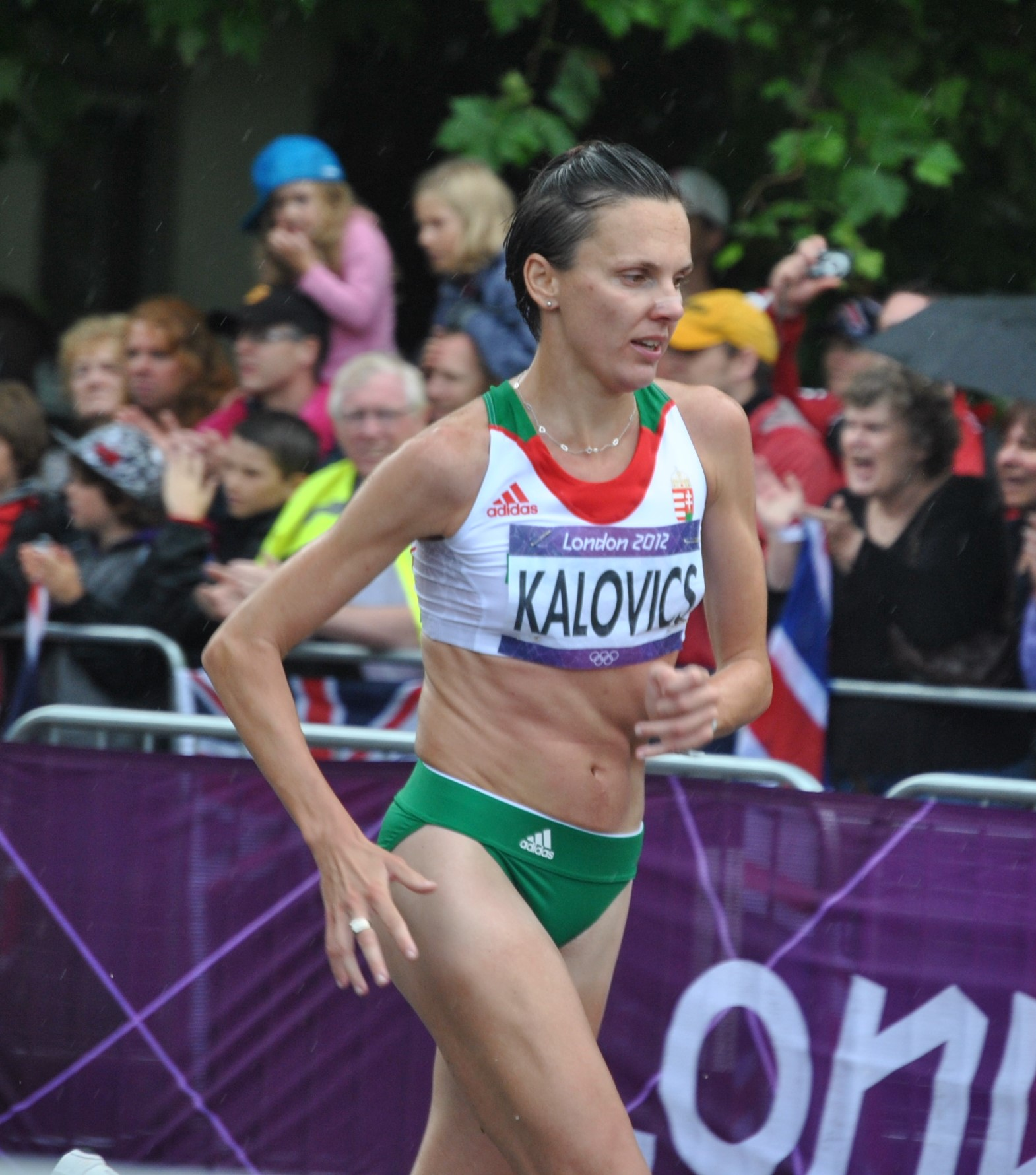 Anikó Kálovics competing at the 2012 London Olympic Games